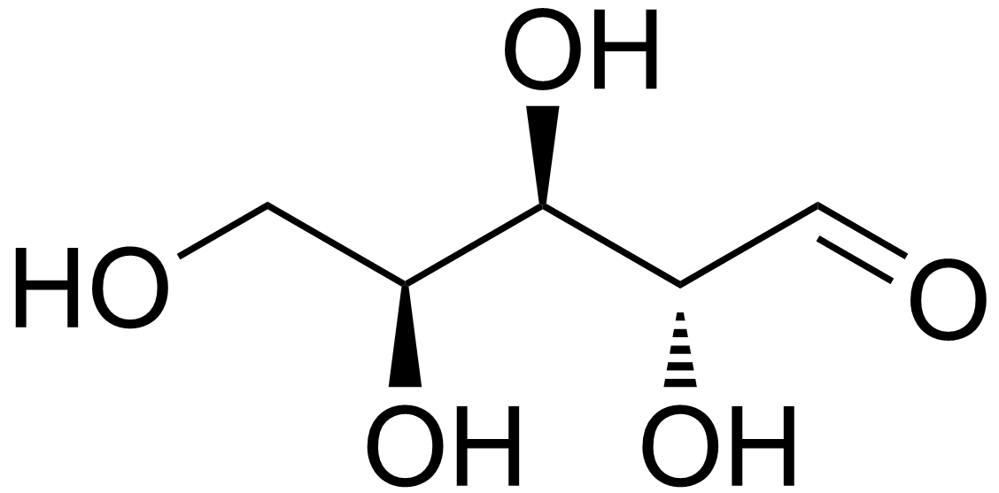 Chemical structure of L-lyxose created with ChemDraw